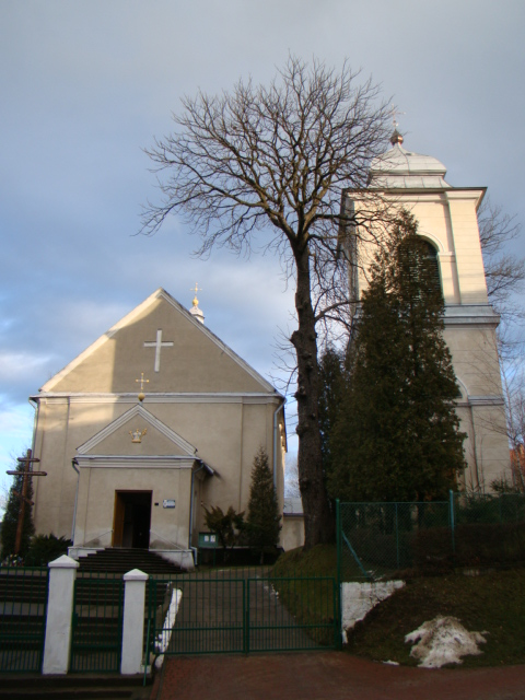 Orthodox_churches_in_Sanok